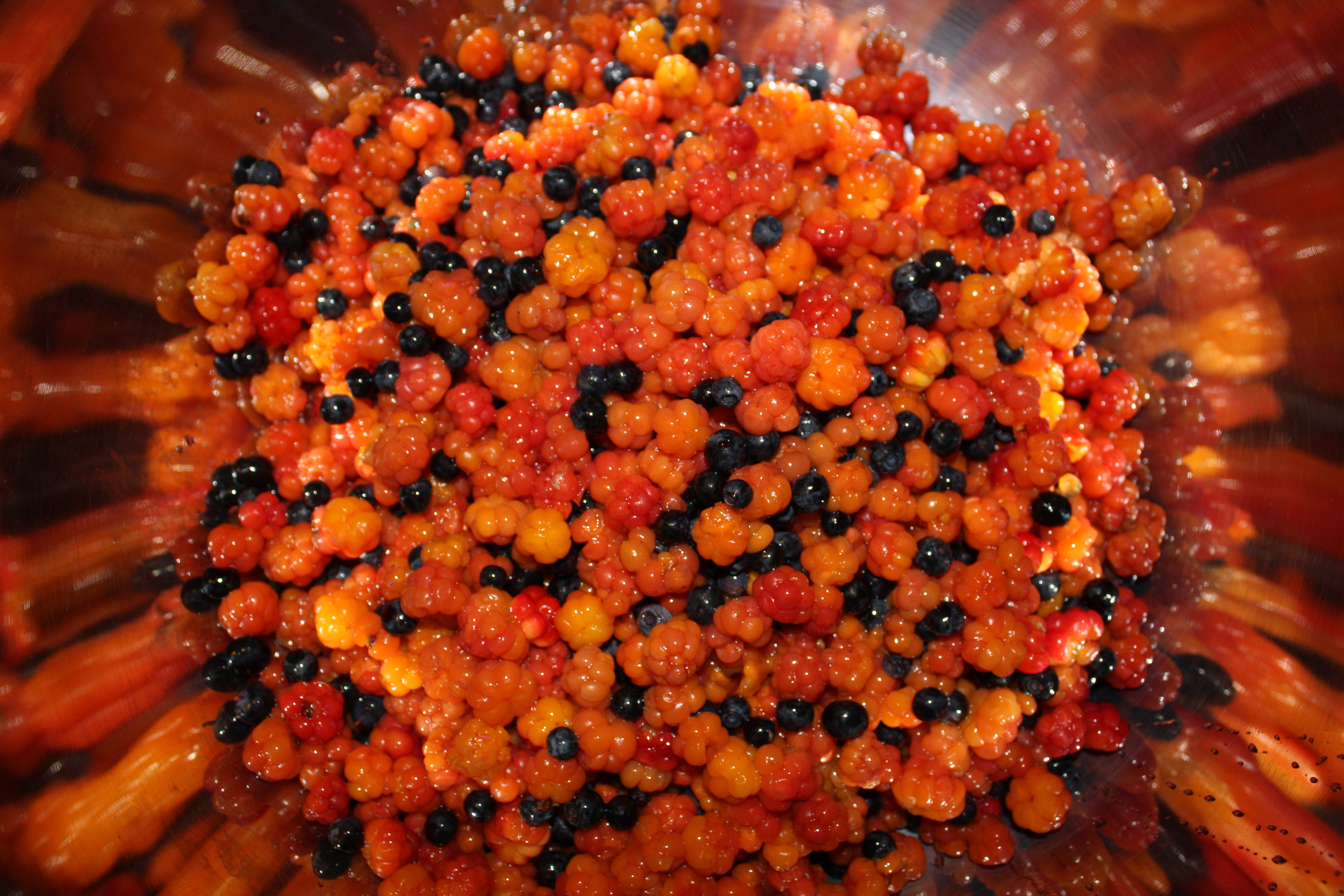 Cloudberry and blueberry.